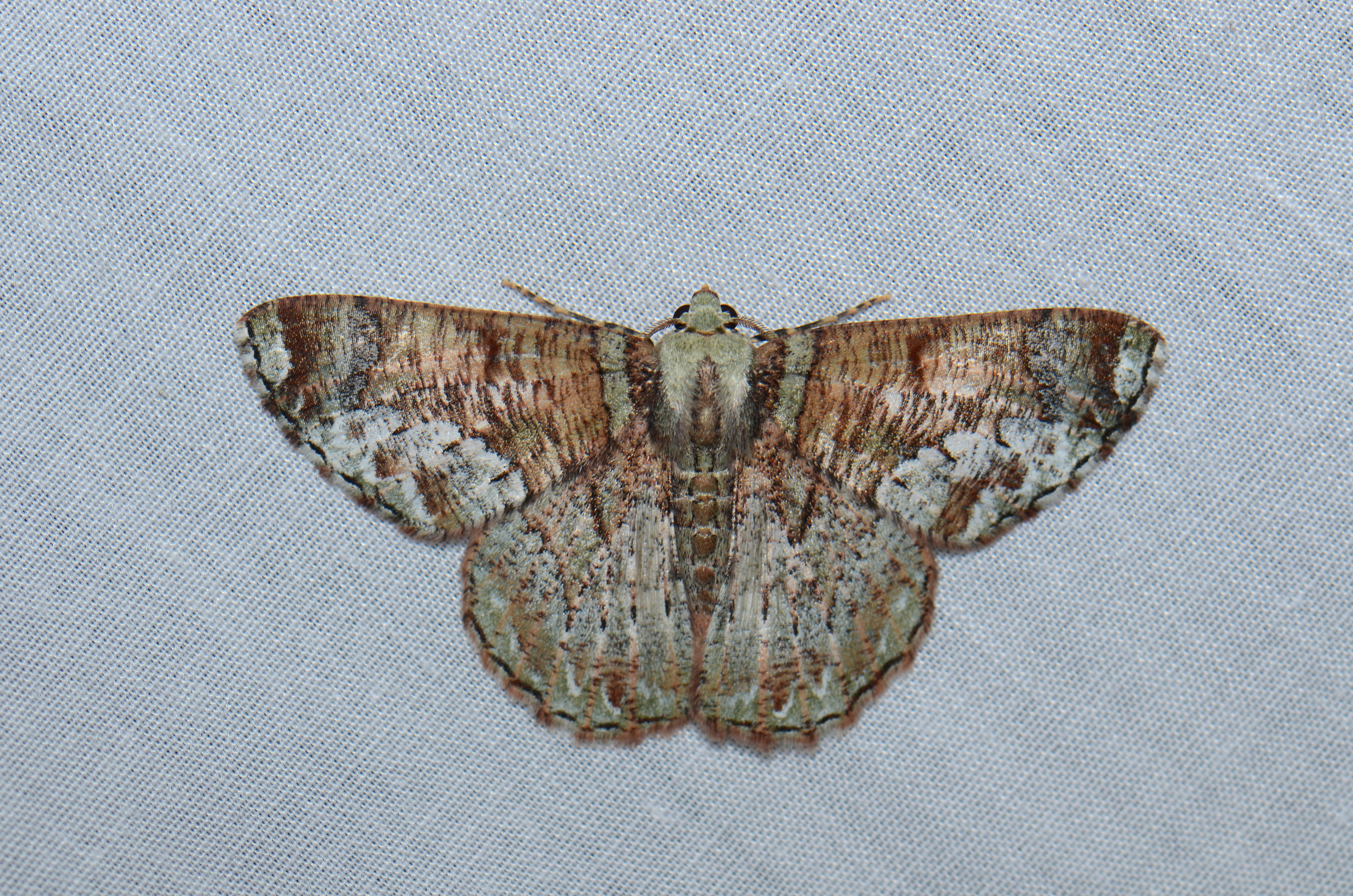 Thanks to Alexey Yakovlev for ID help